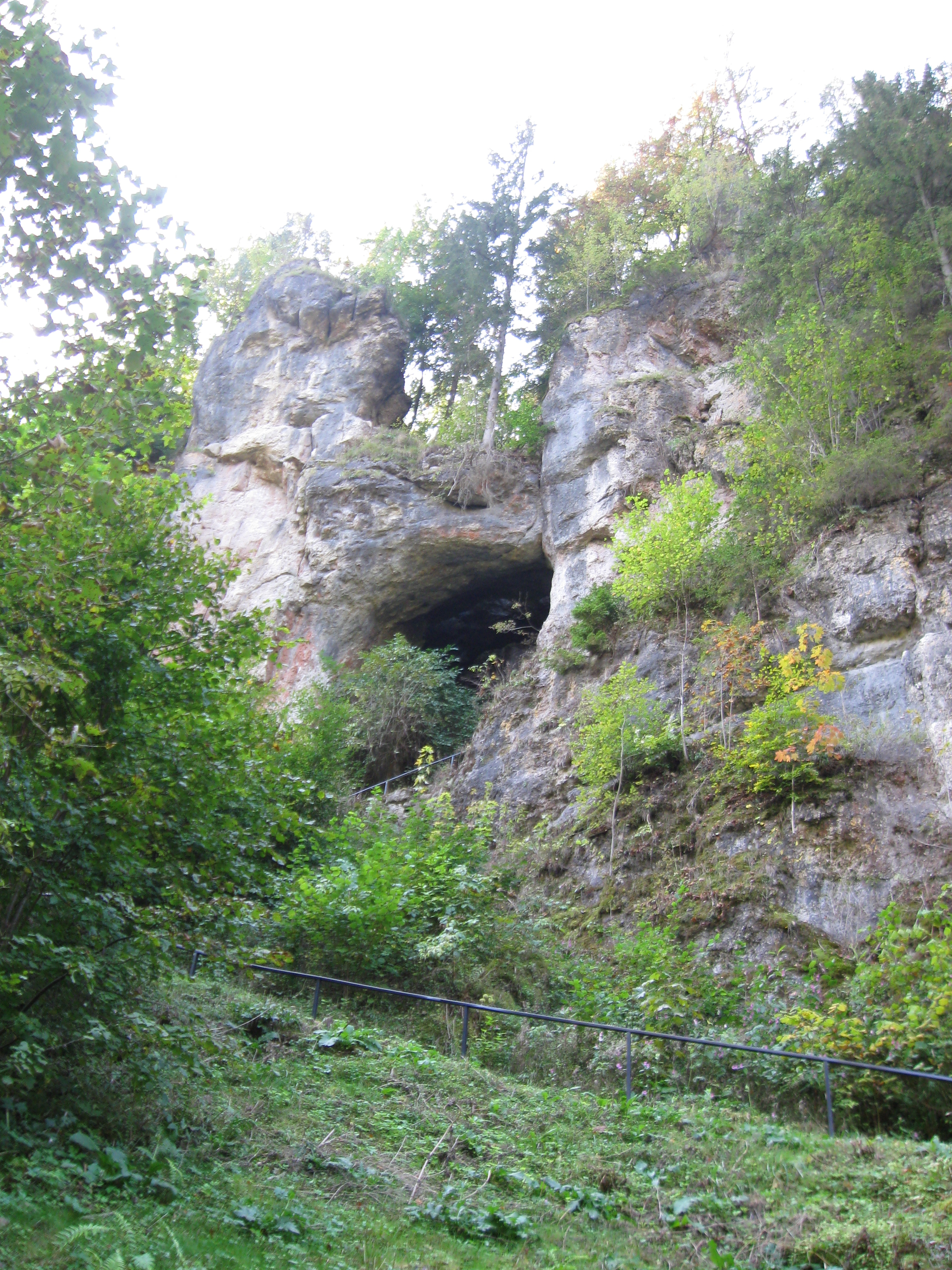 The cave Riesenburg in Frankonia Germany